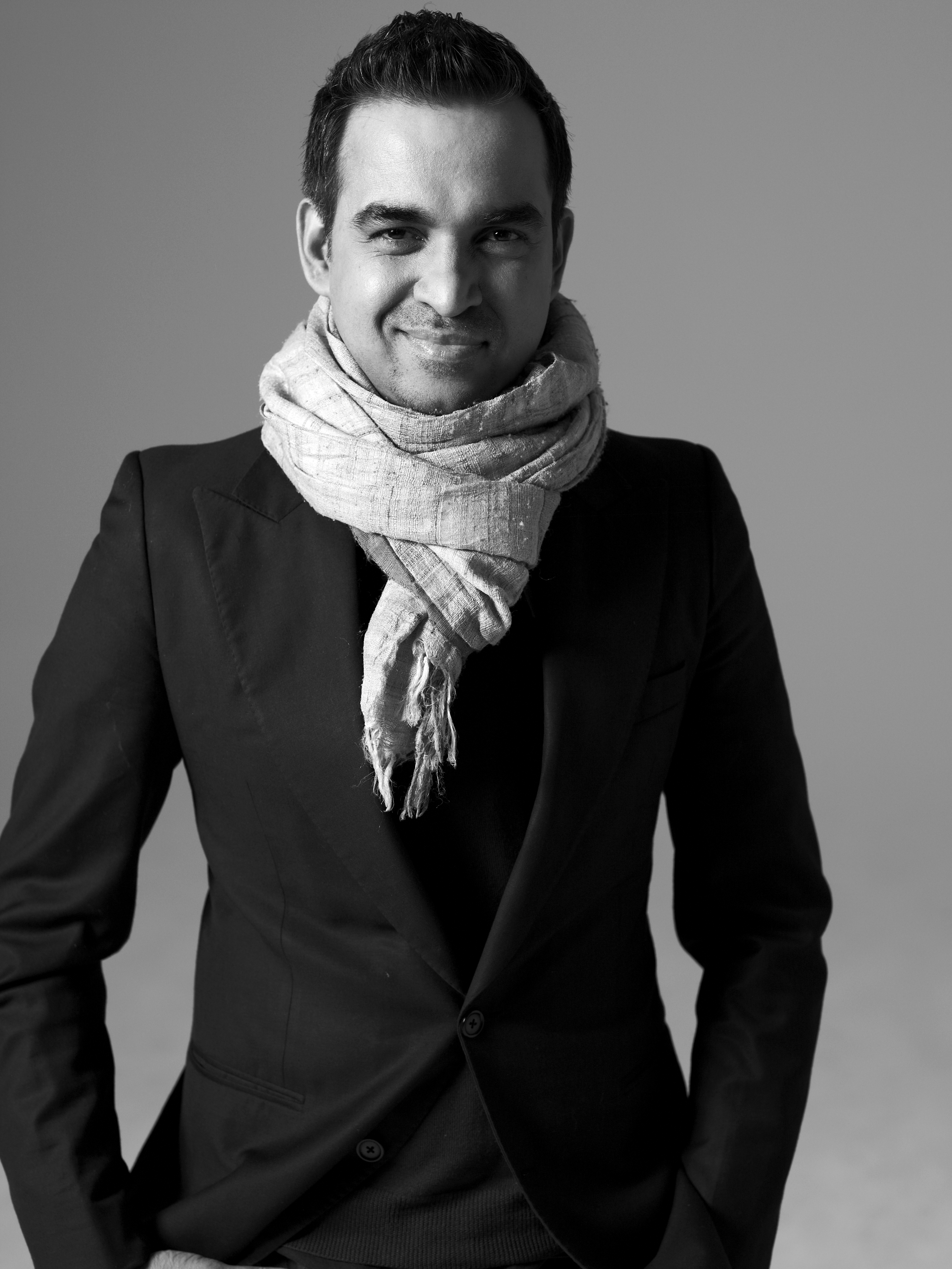 photograph of fashion designer, Bibhu Mohapatra